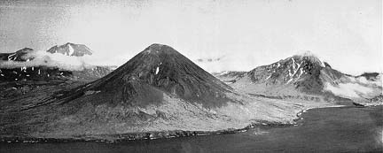 Semisopochnoi Island. South Part.